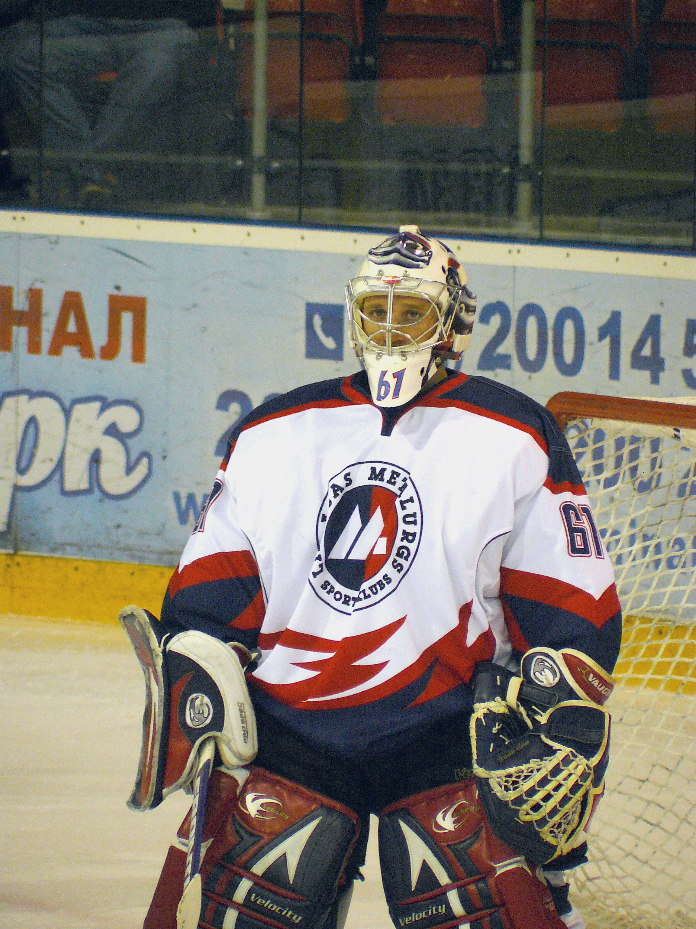 Goalie Dmitrijs Žabotinskis #61 of the Metalurgs Liepaja during the Belarus Extraliga game against the Sokil Kyiv on September 13, 2010 at the Terminal Arena in Brovary, Ukraine. Sokil Kyiv won the game 3:1.